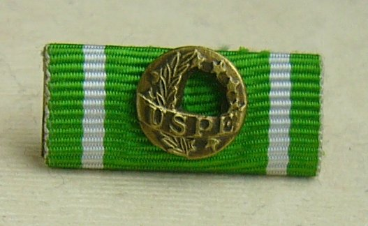 Bandspangenabzeichen des Europäischen Polizei-Leistungsabzeichens (EPLA).